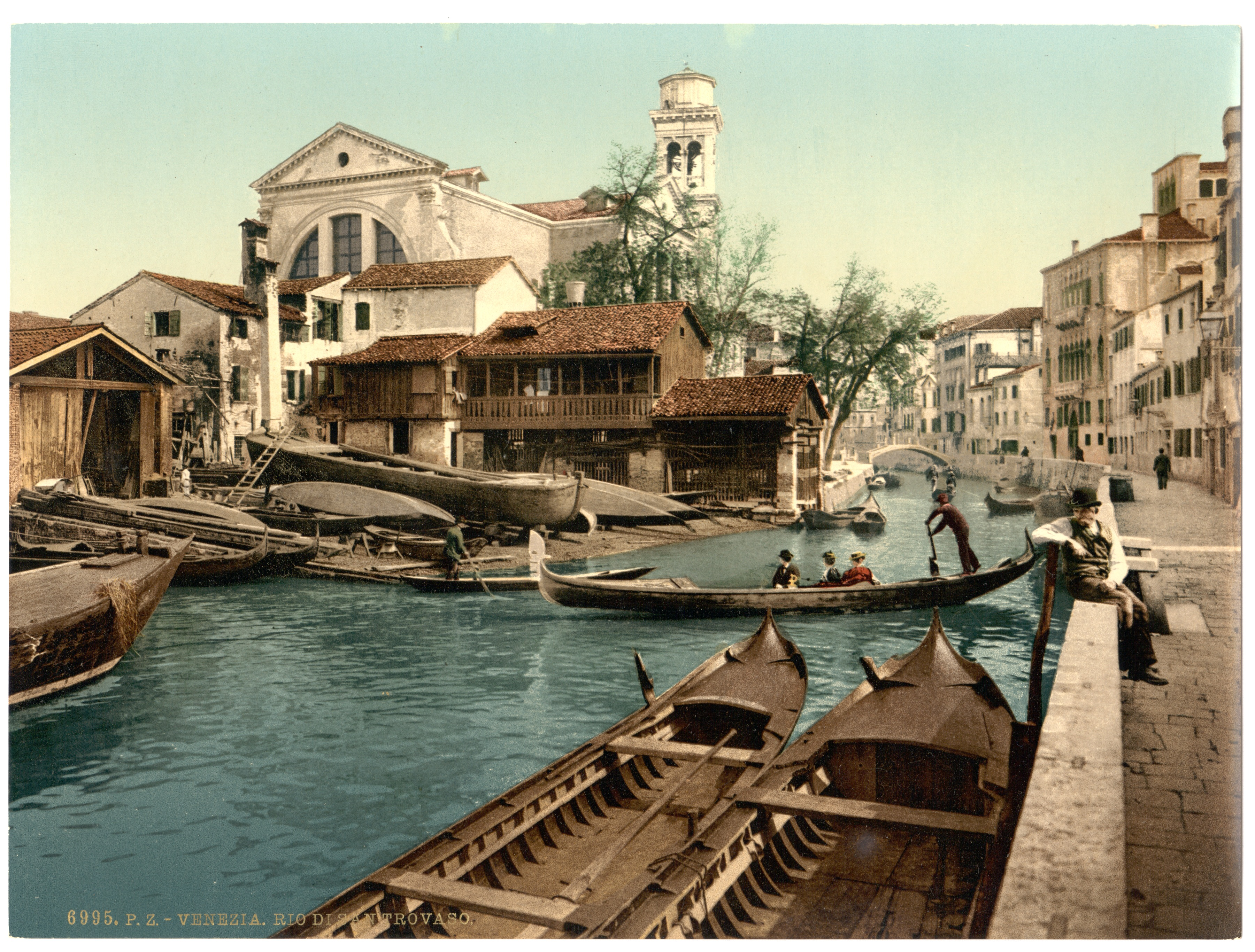 Print no. "6995".; Forms part of: Views of architecture and other sites in Italy in the Photochrom print collection.; Title from the Detroit Publishing Co., Catalogue J-foreign section, Detroit, Mich. : Detroit Publishing Company, 1905.; More information about the Photochrom Print Collection is available at